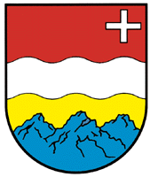 Coat of arms of Muotathal, Canton Schwyz, Switzerland